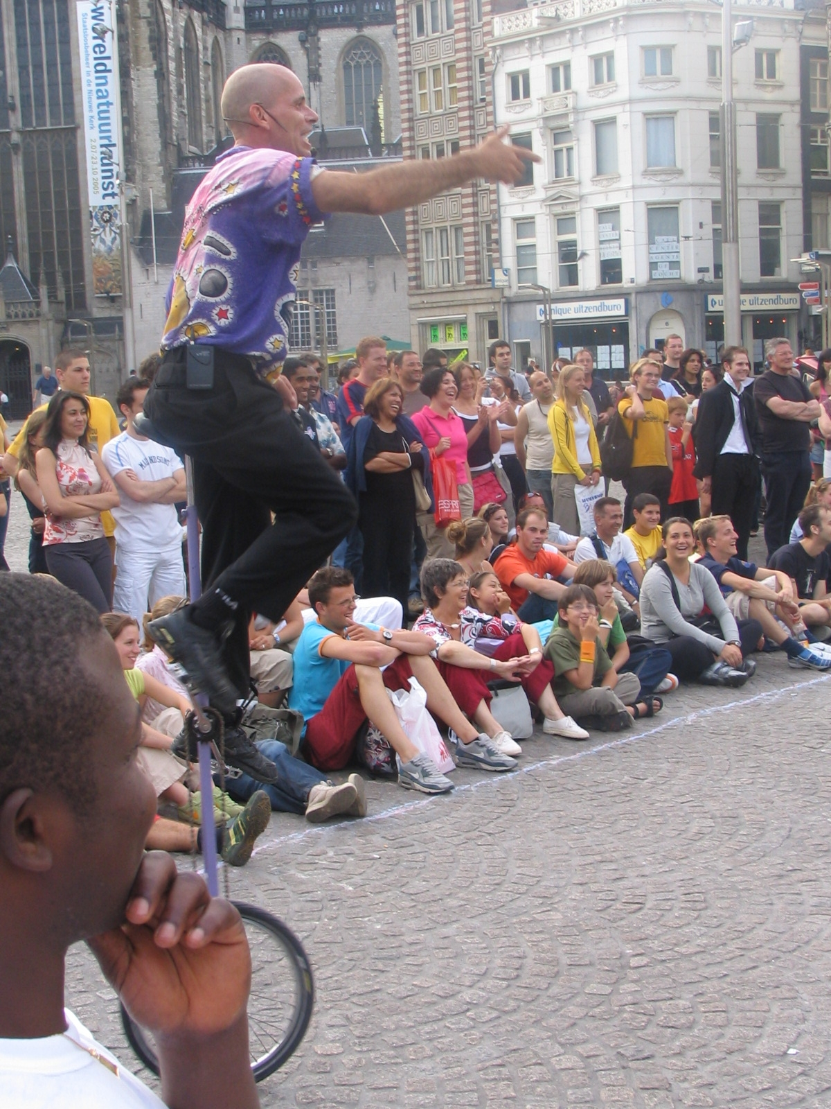 a street theatre performance at the Dam Square, Amsterdam